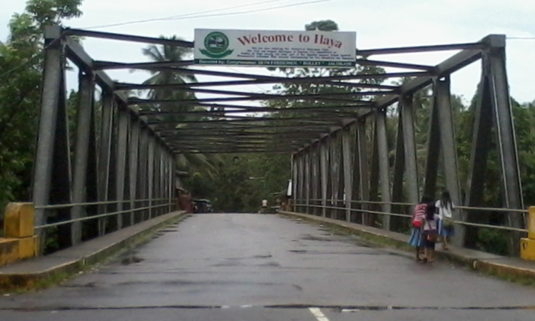 The picture of Ilaya steel bridge on Dapitan river. View from the highway.